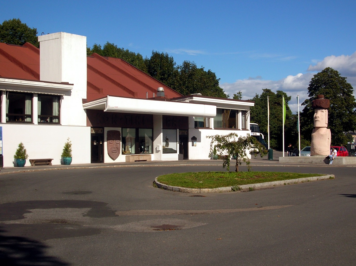 The Kon-Tiki Museum at Bygdøy in Oslo (Norway)